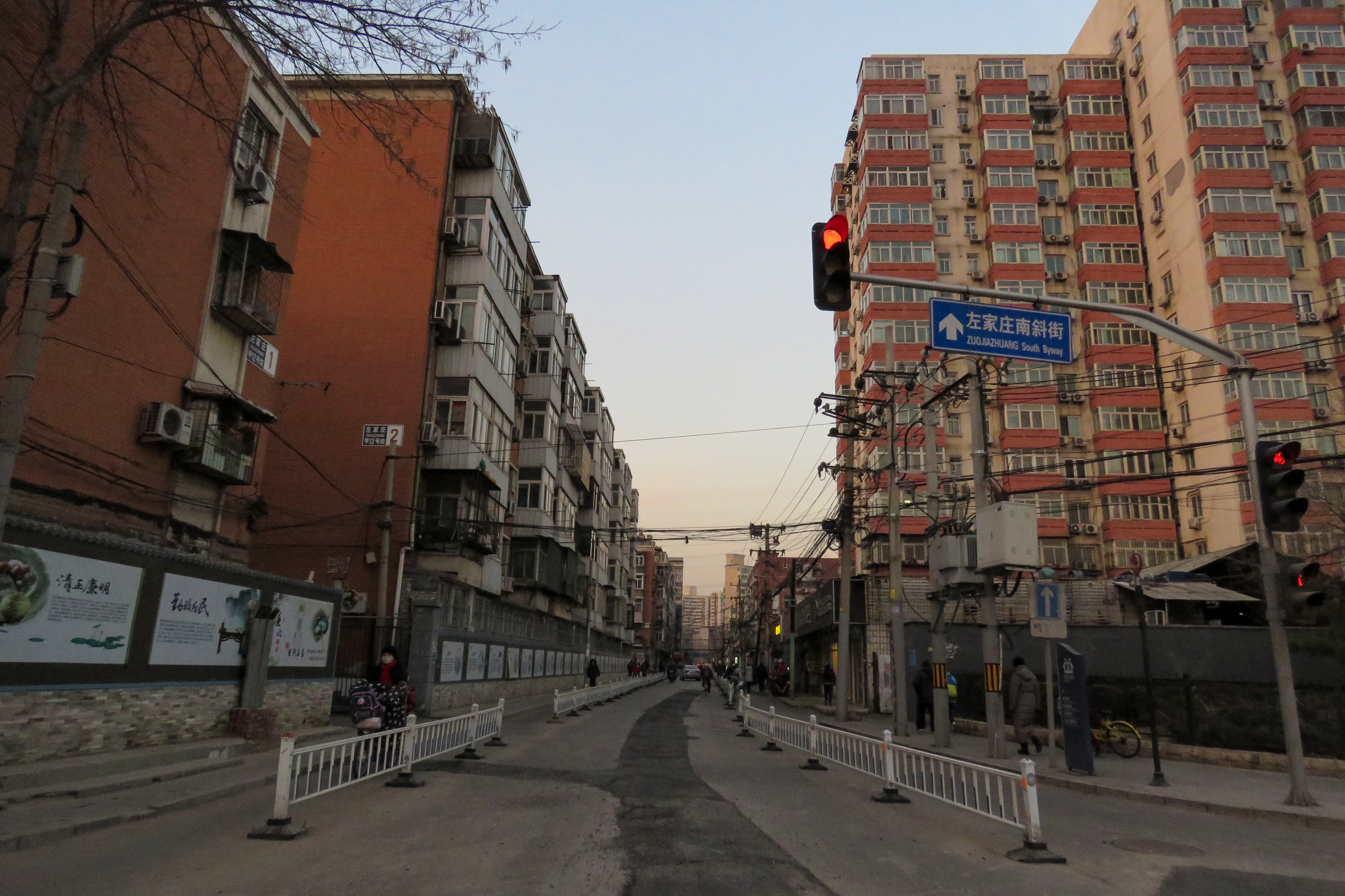 West of this byway stands a convenience store.